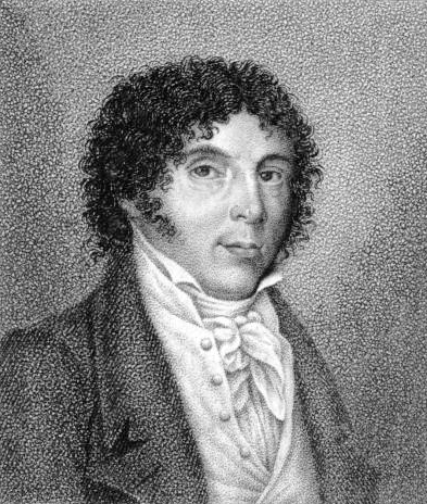 Italian composer Stefano Pavesi (1779-1850). Stipple engraving by Luigi Rados (1773-1840).